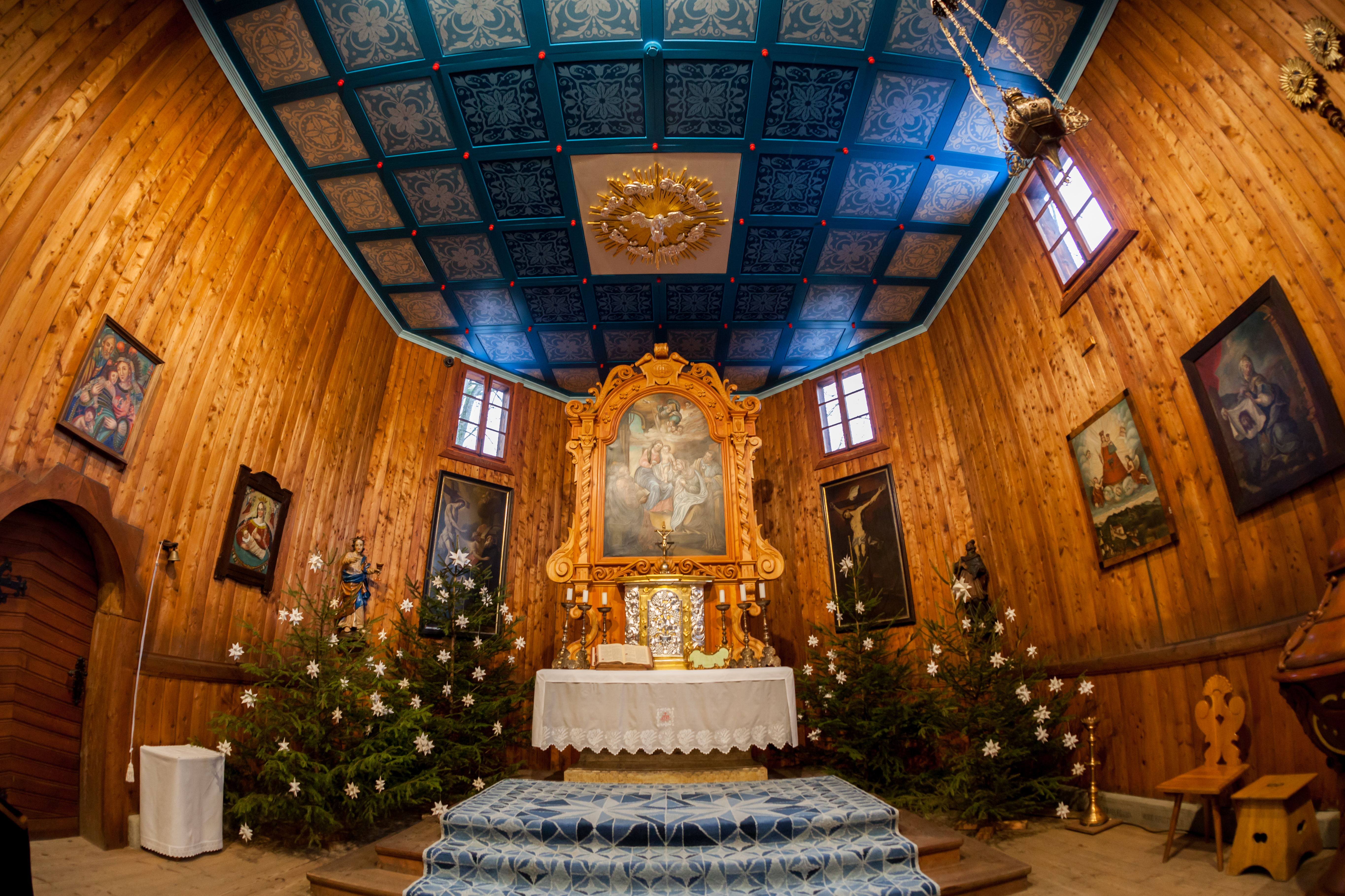 Interior of St. Anne church at Wallachian Open Air Museum in Rožnov pod Radhoštěm, Vsetín District, Zlín Region, Czechia